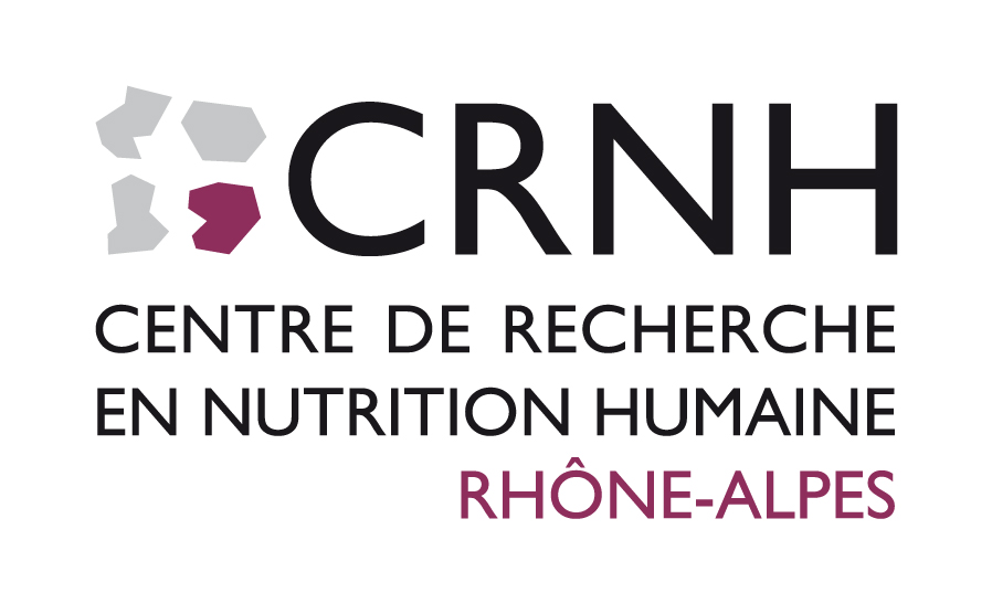 Logo CRNH Rhône-Alpes